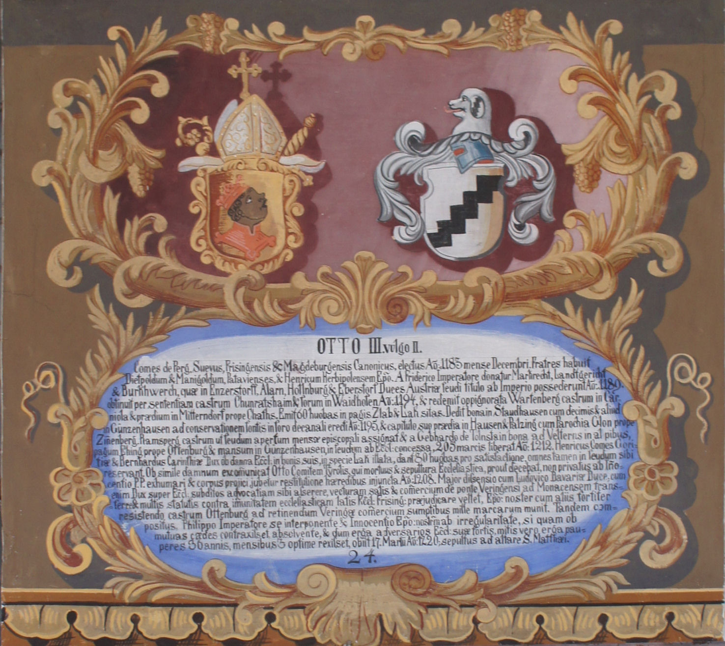 Wappentafel von Otto II. von Berg, Bischof von Freising, im Fürstengang zwischen Fürstbischöflicher Residenz und Freisinger Dom. Links das geistliche, rechts das persönliche Wappen, darunter ein lateinischer Text mit kurzer Biographie.